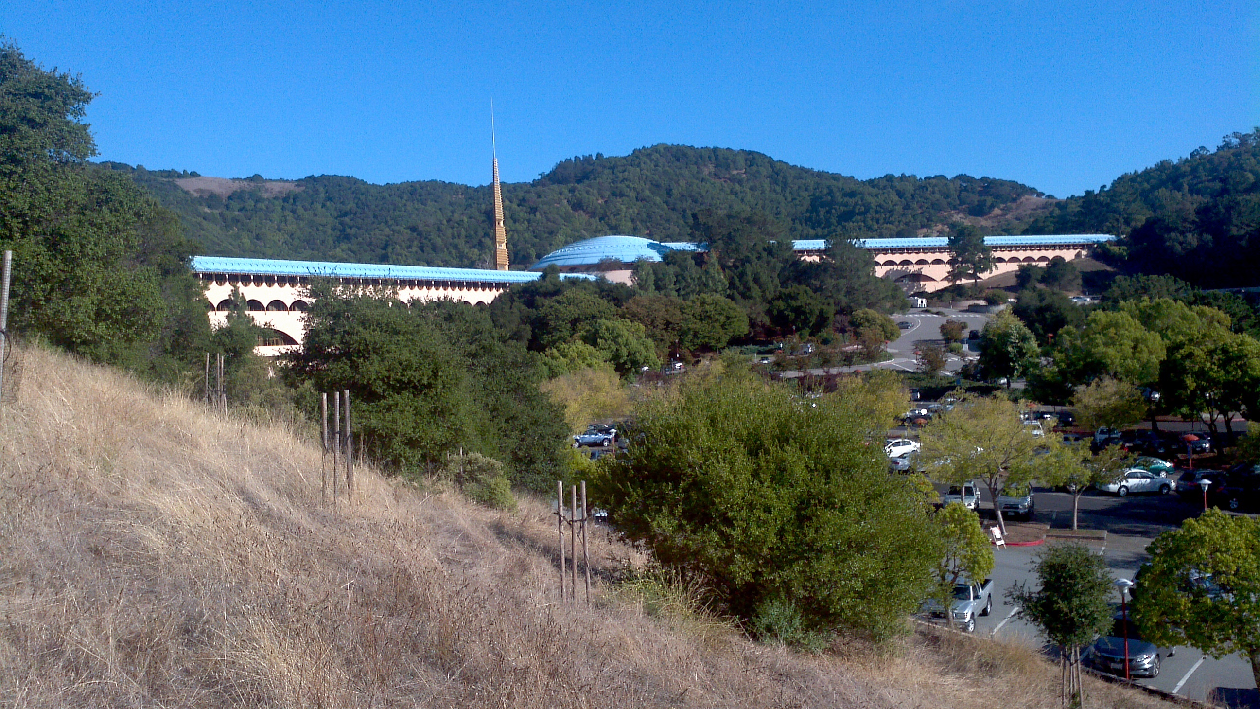 National Register of Historic Places listings in Marin County, California. Marin County Civic Center, junction of N. San Pedro Rd. and Civic Center Dr., San Rafael, California